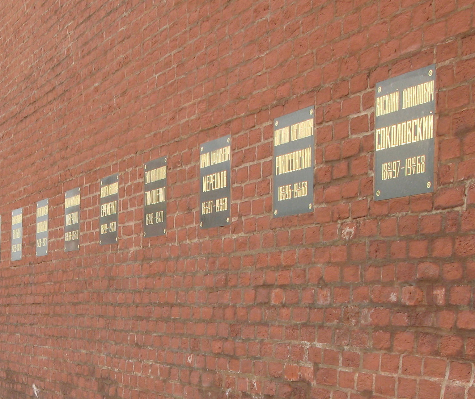 (31 мая 2010) --- Kremlin Wall Necropolis Photo credit: NASA/Stephanie Stoll